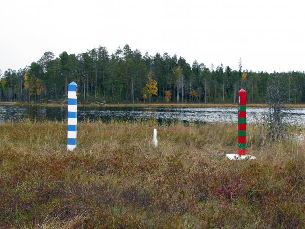 Finnish (blue–white) and Russian (red–green) boundary marks at the easternmost point of Finland, small nameless island on Virmajärvi lake in Ilomantsi, Finland